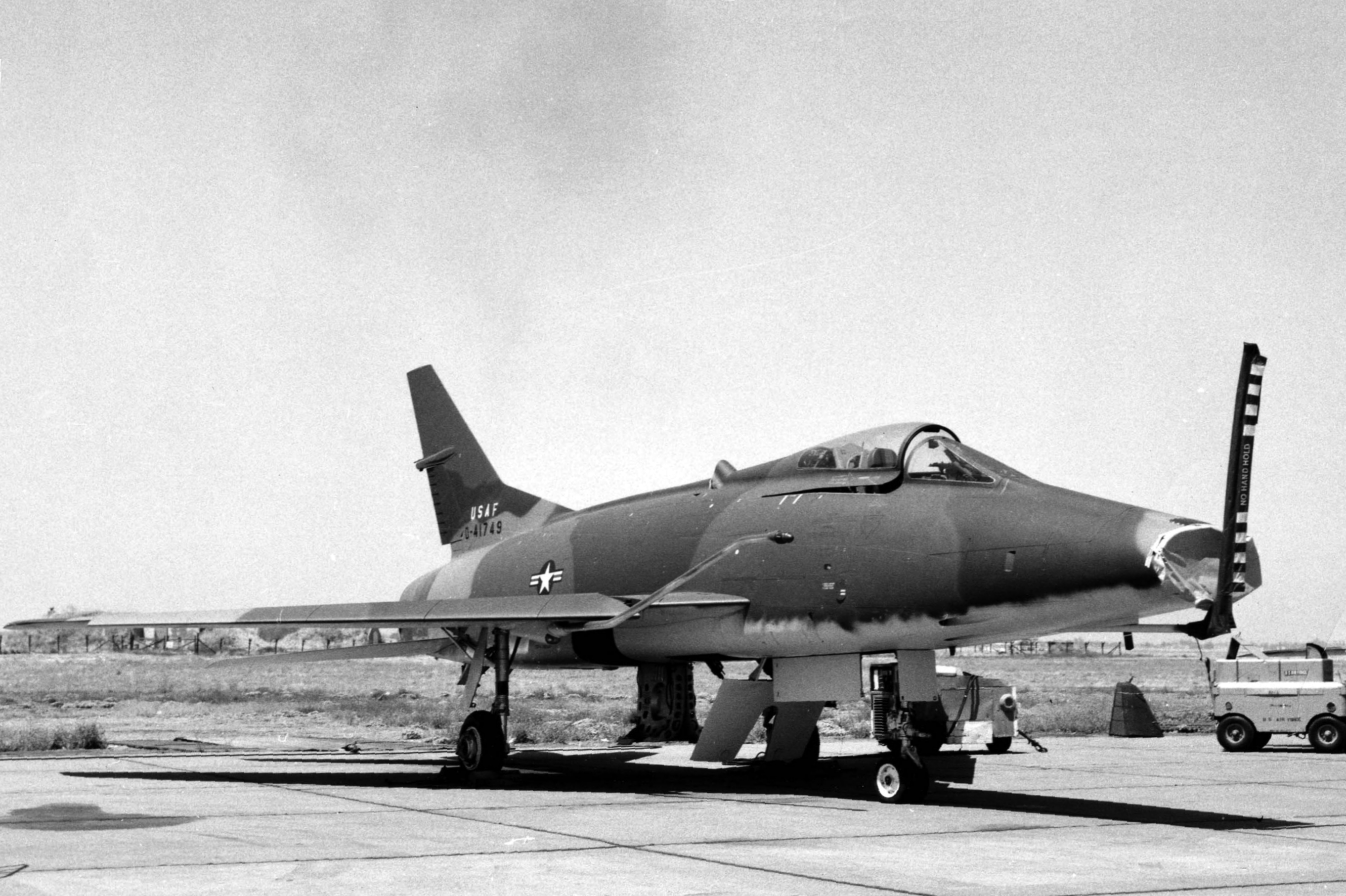 A U.S. Air Force North American F-100C-1-NA Super Sabre (s/n 54-1749) at McClellan Air Force Base, California (USA), in August 1967. This aircraft was later sold to Turkey.